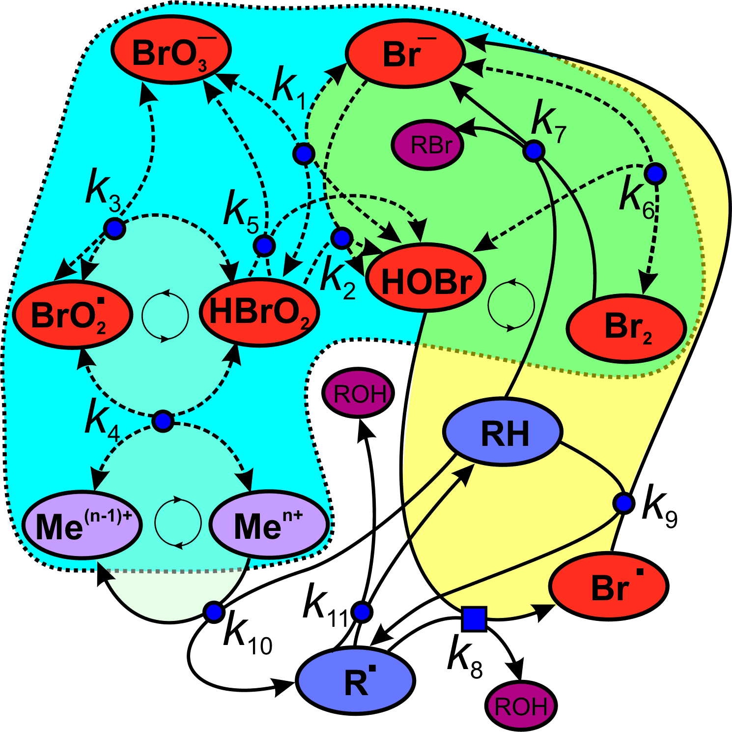 Belousov-Zhabotinsky reaction graphical scheme